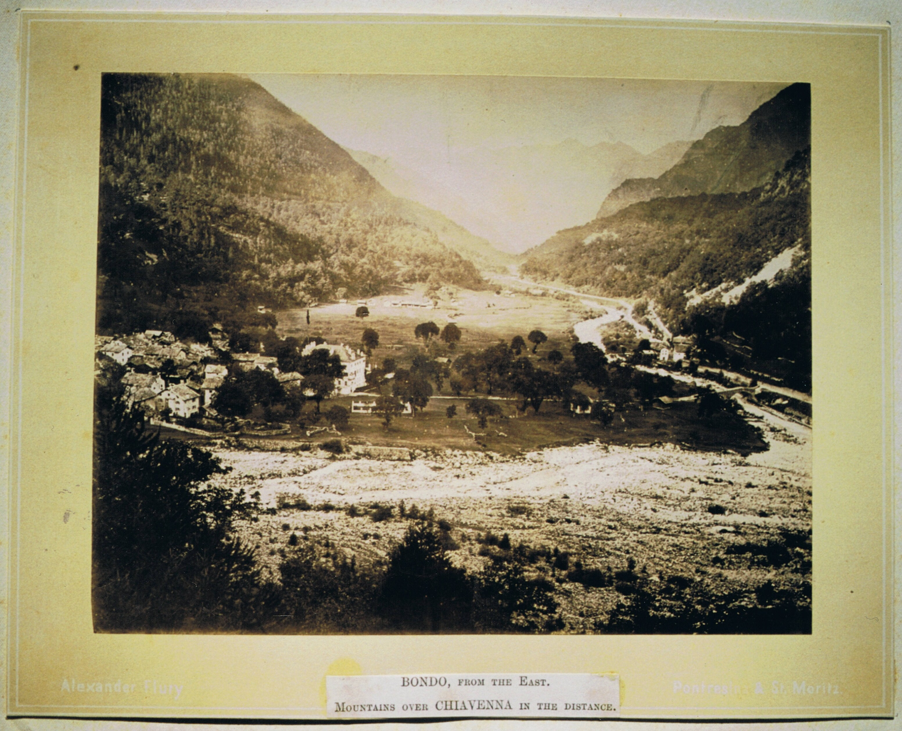 The village of Bondo from the north, looking south towards Chiavenna and Lombardy